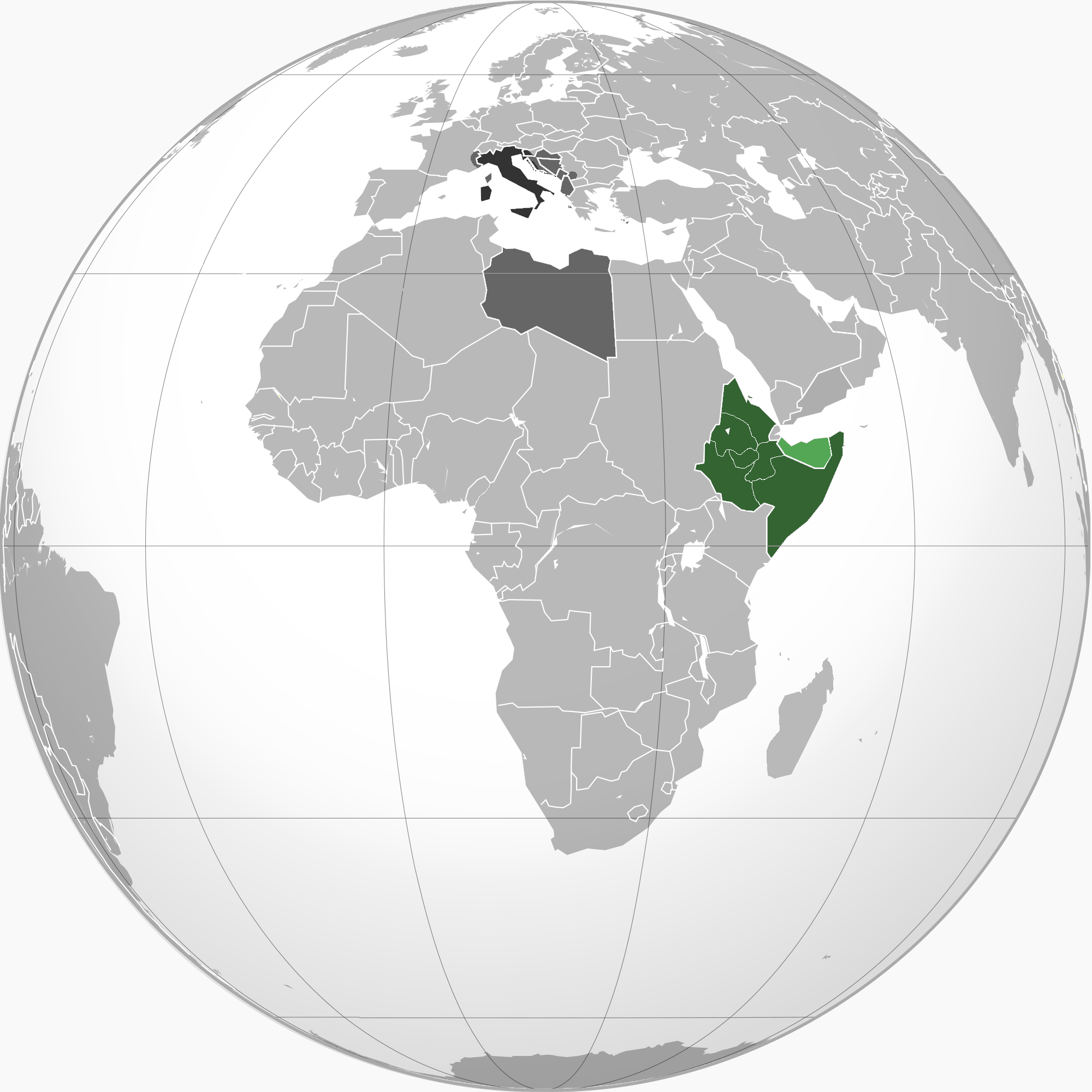 Green: Italian East Africa White lines designate territorial divisions Light Green: Absorbed in 1940 Dark gray: Other Italian possessions and occupied territory Darkest gray: Kingdom of Italy